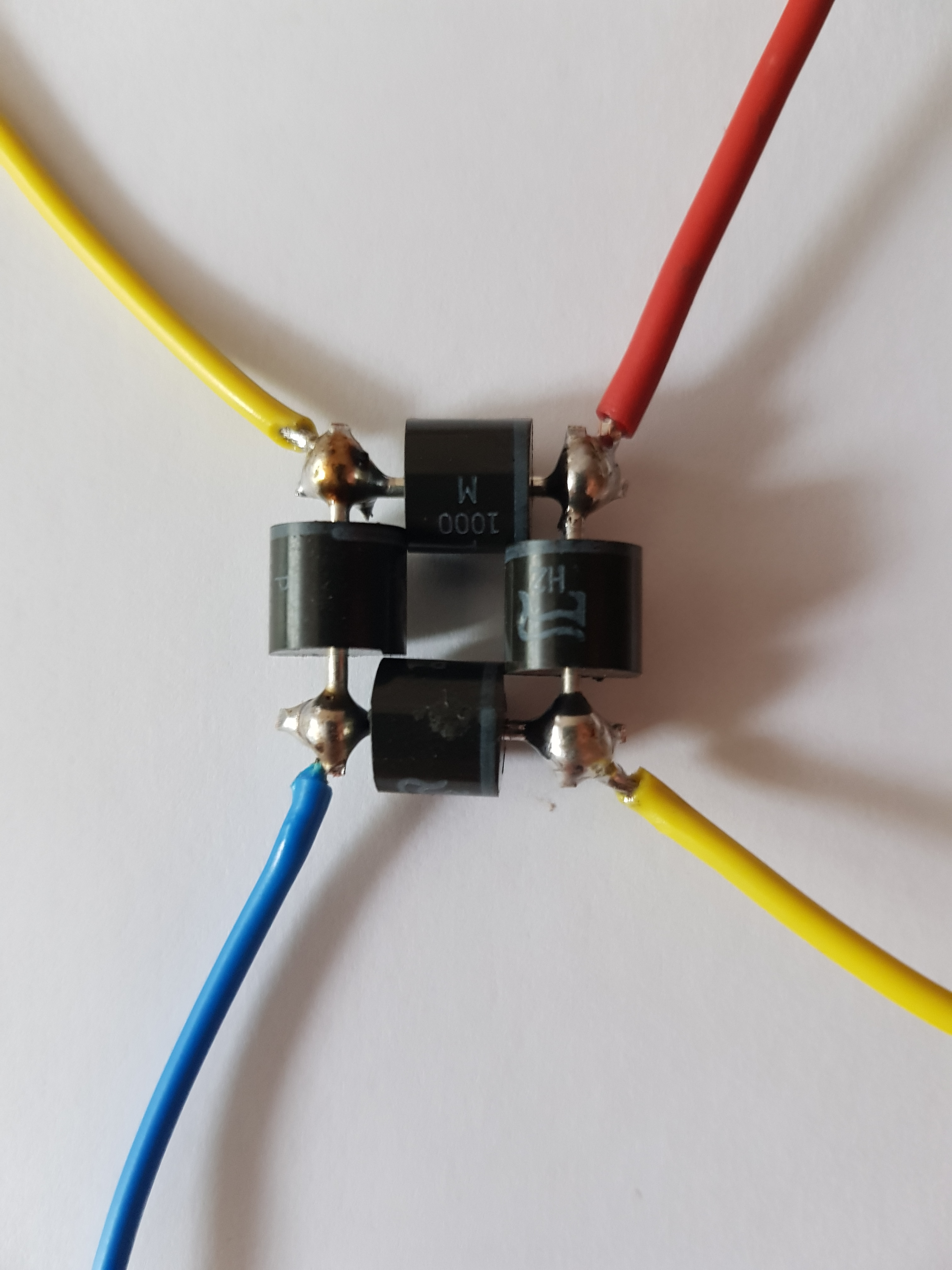 Hand soldered diode bridge from 4 diodes Collor Code: •Yellow - AC input (ussualy from the tranfrormer) there are two with the same collour because diode bridge is bipolar... •Red - bumpy* DC output + •Blue - bumpy* DC ouput - bumpy - in order to have sraight line on oscilocpope (true DC) you need to add a capacitor after the diode bridge... othervise you will end up with DC which looks like this: If you were to combine two mathematical functions - sinus and cosinus on just one line (just put them into same cartesian coordinate system) but ignore or delete the negative part of them... so you have only positive voltage so technically DC.